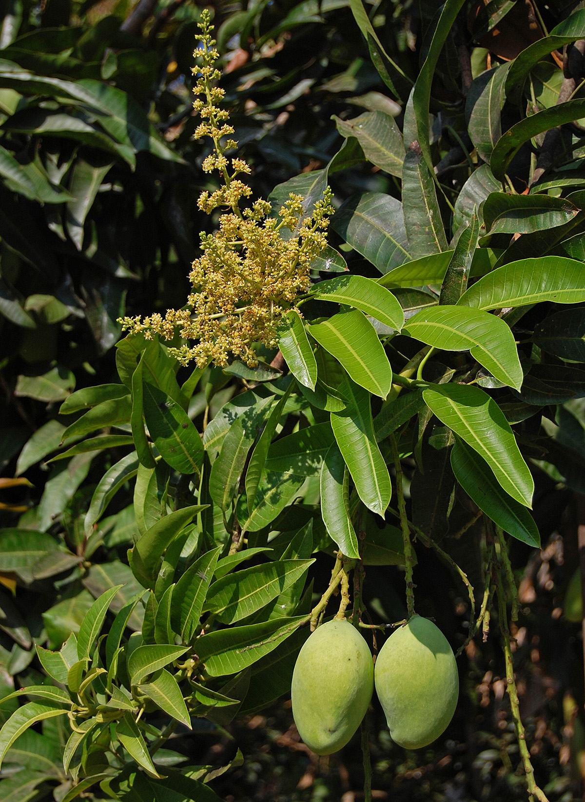 Mangga indramayu, a cultivar of mango, Mangifera indica, planted in Banyumas, Central Java, Indonesia. Unriped fruits and inflorescence.